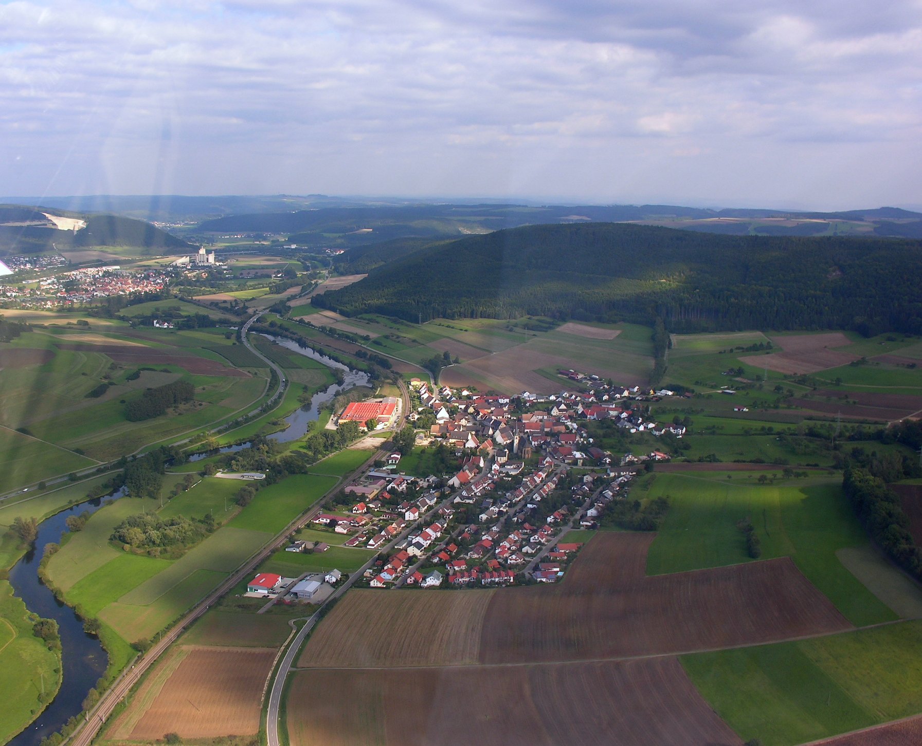 Germany, Baden-Württemberg, aerial view of the Danube in Gutmadingen. In the background is Geisingen.